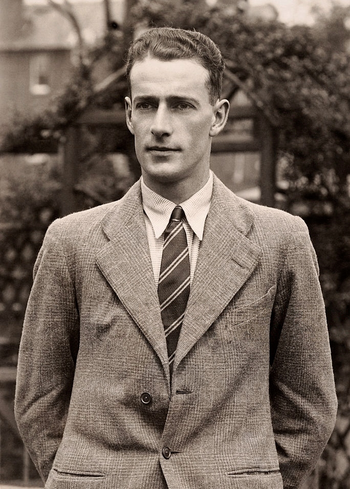 Alan Melville, Sussex County cricket club, circa 1935.